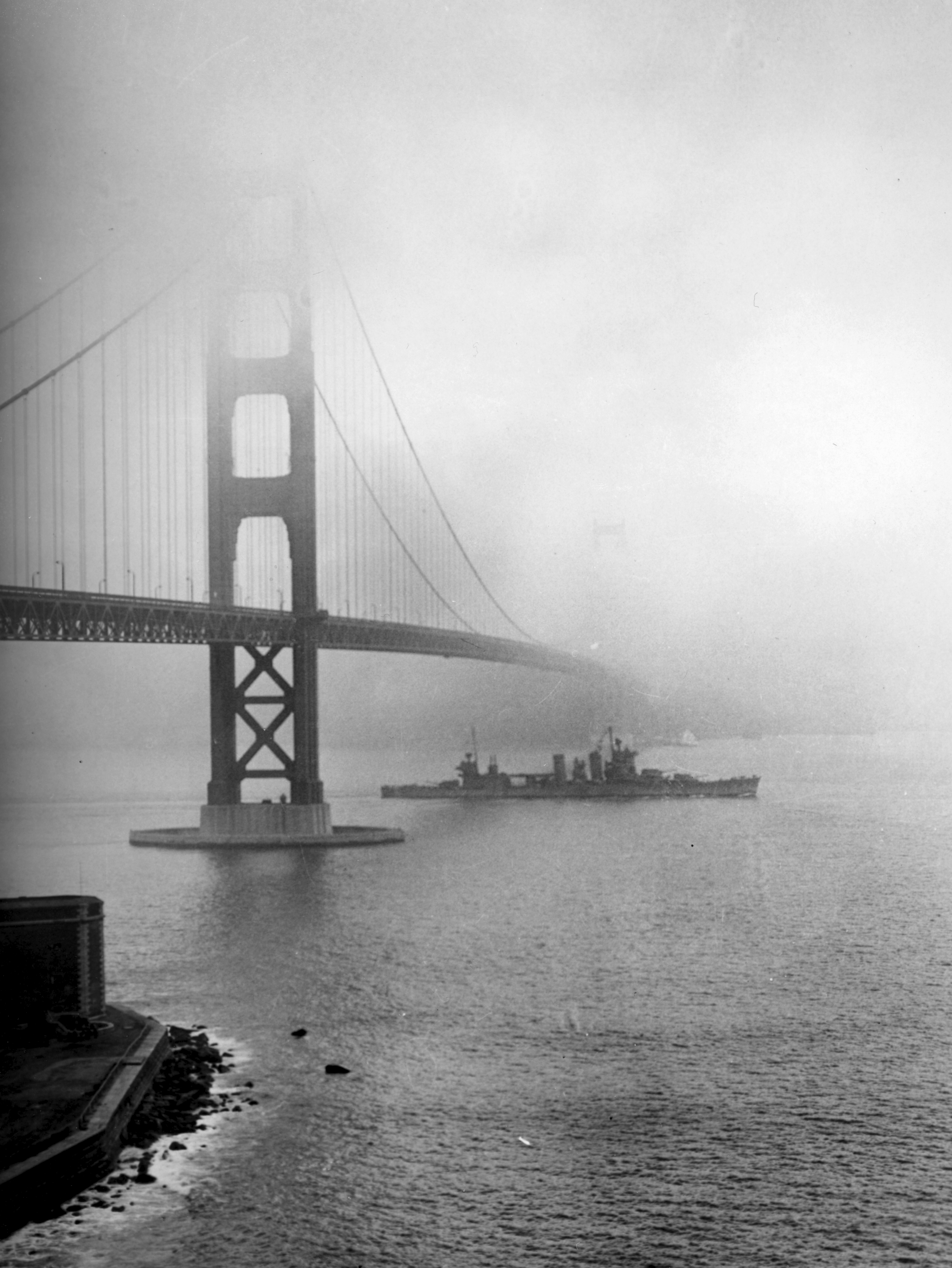 The U.S. Navy heavy cruiser USS San Francisco (CA-38) steams under the Golden Gate Bridge to enter San Francisco Bay, California (USA), on a foggy 11 December 1942. She was en route to the Mare Island Naval Shipyard for battle damage repairs.